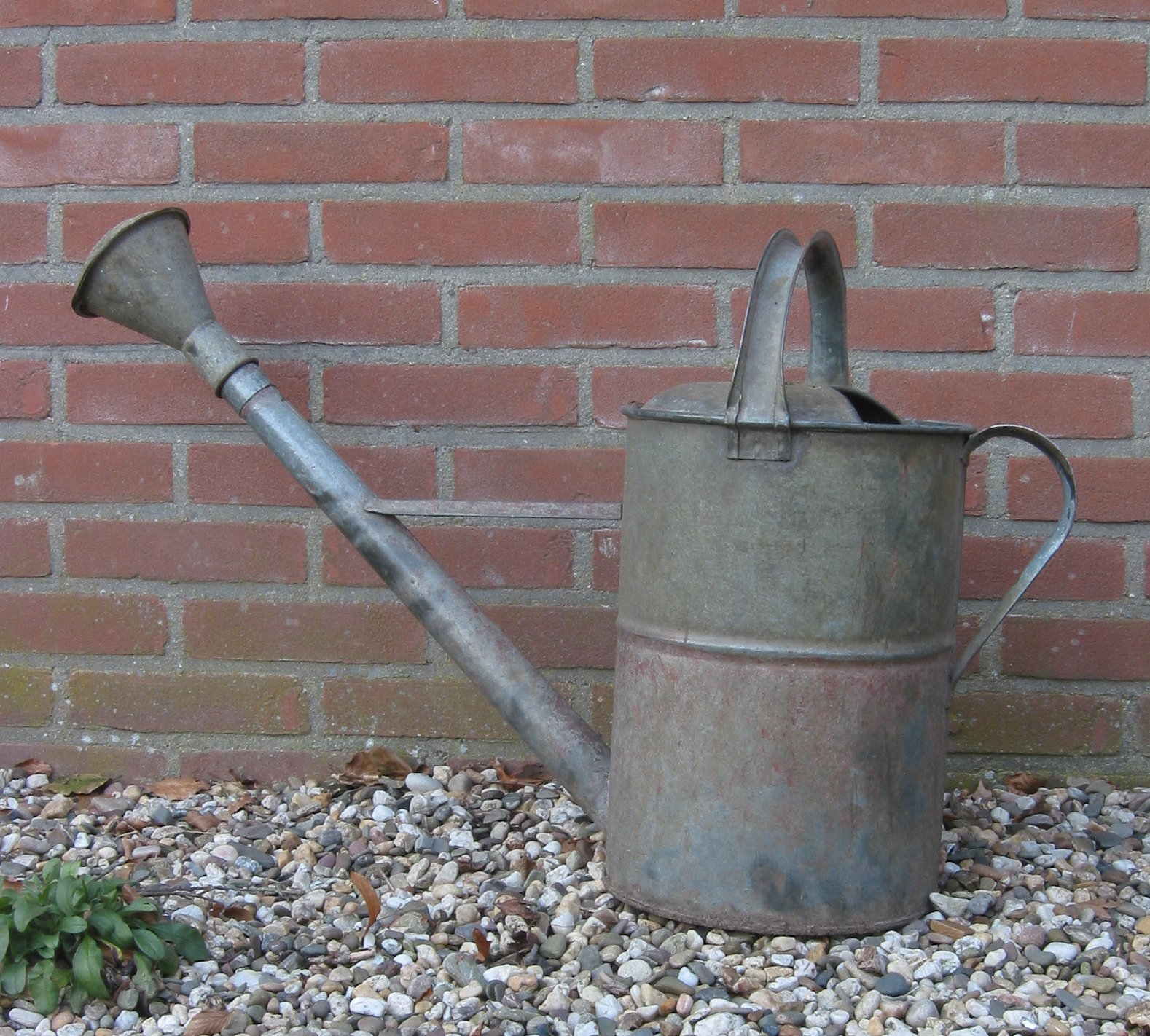 Watering can